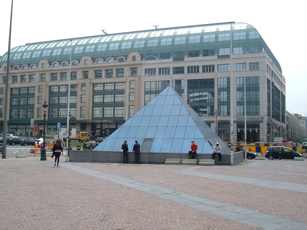 Place Charles Rogier in Brussels, Belgium, in 2007, with its glass pyramid